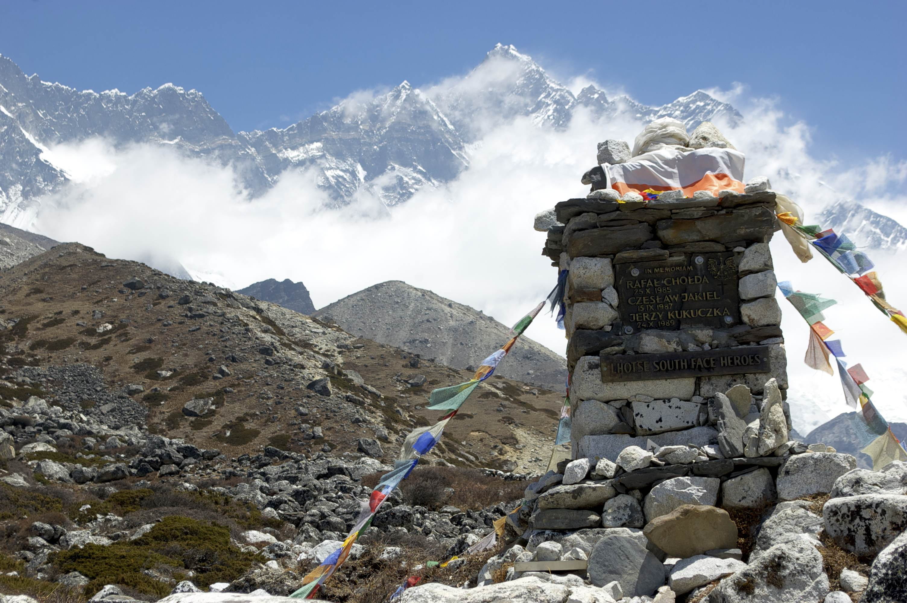 Memorial for Polish climbers - Rafal Cholda, Czeslaw Jakiel and Jerzy Kukuczka - who lost their lives on Lhotse. Near Chukhung with Lhotse South Face in the background.